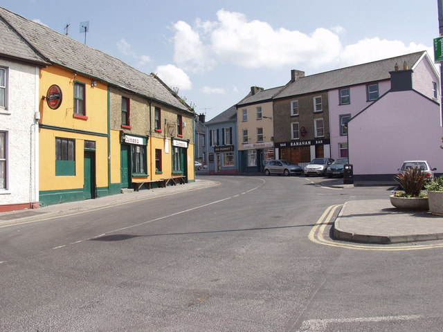 Askeaton, The Square A view from The Square towards Church Street.